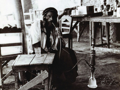 Photograph,1920,s of a coffee house in Deir ez-Zor on the Euphrates River in Syria. A bedouin is seen smoking his water-pipe, called locally Narghile,in an austere furnished coffee house.